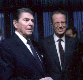 Ronald Reagan and Baudouin of Belgium